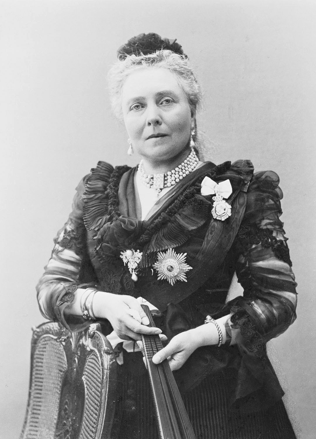 Photograph of Empress Viktoria: half-length portrait, standing by chair, with orders on dress